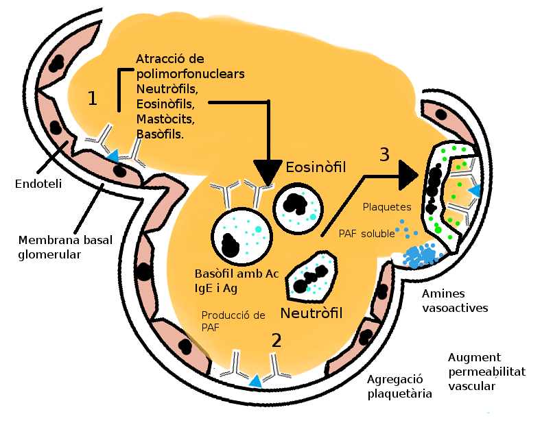 Tisular Damage